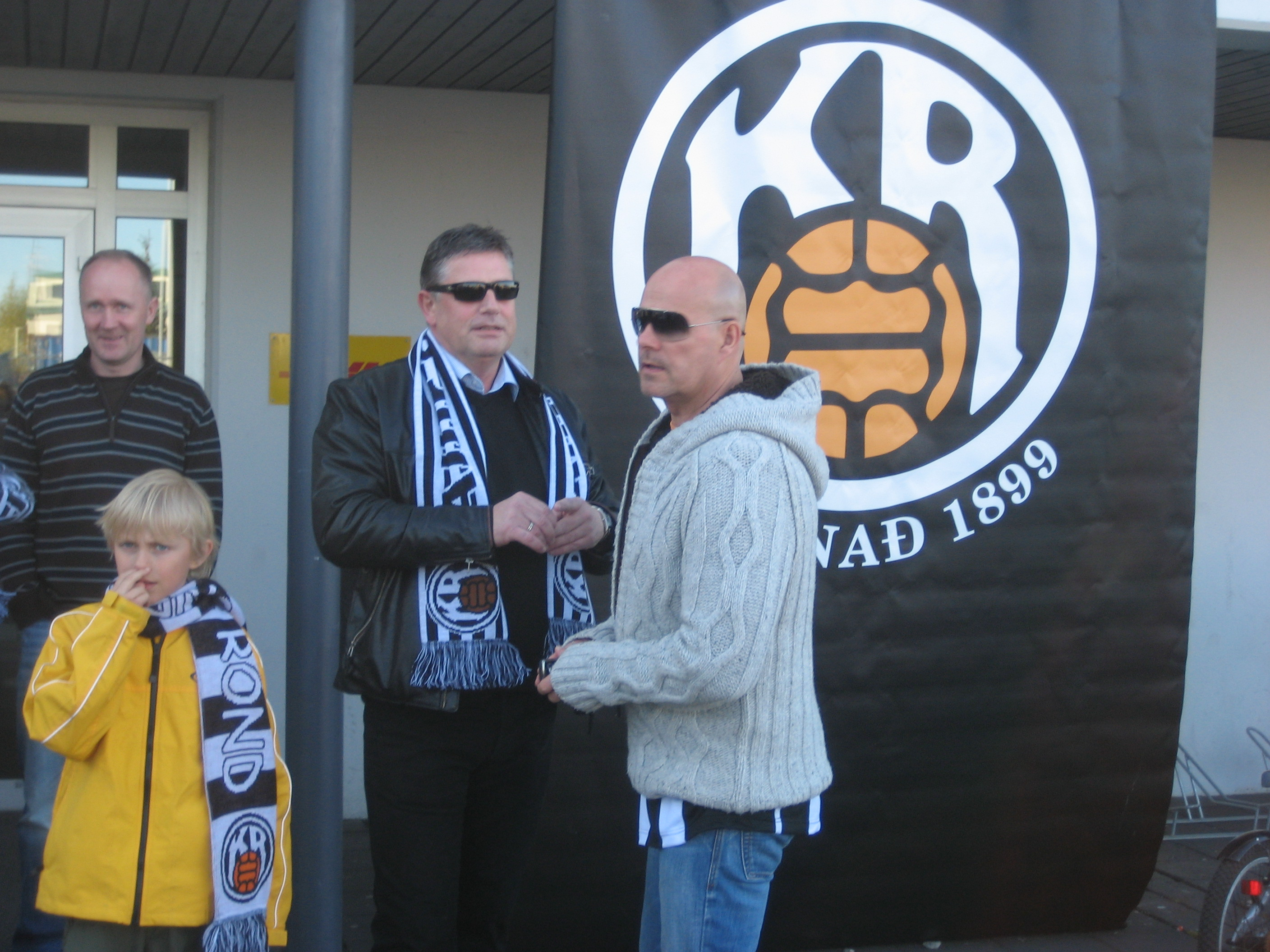 Bubbi Morthens attending a KR game